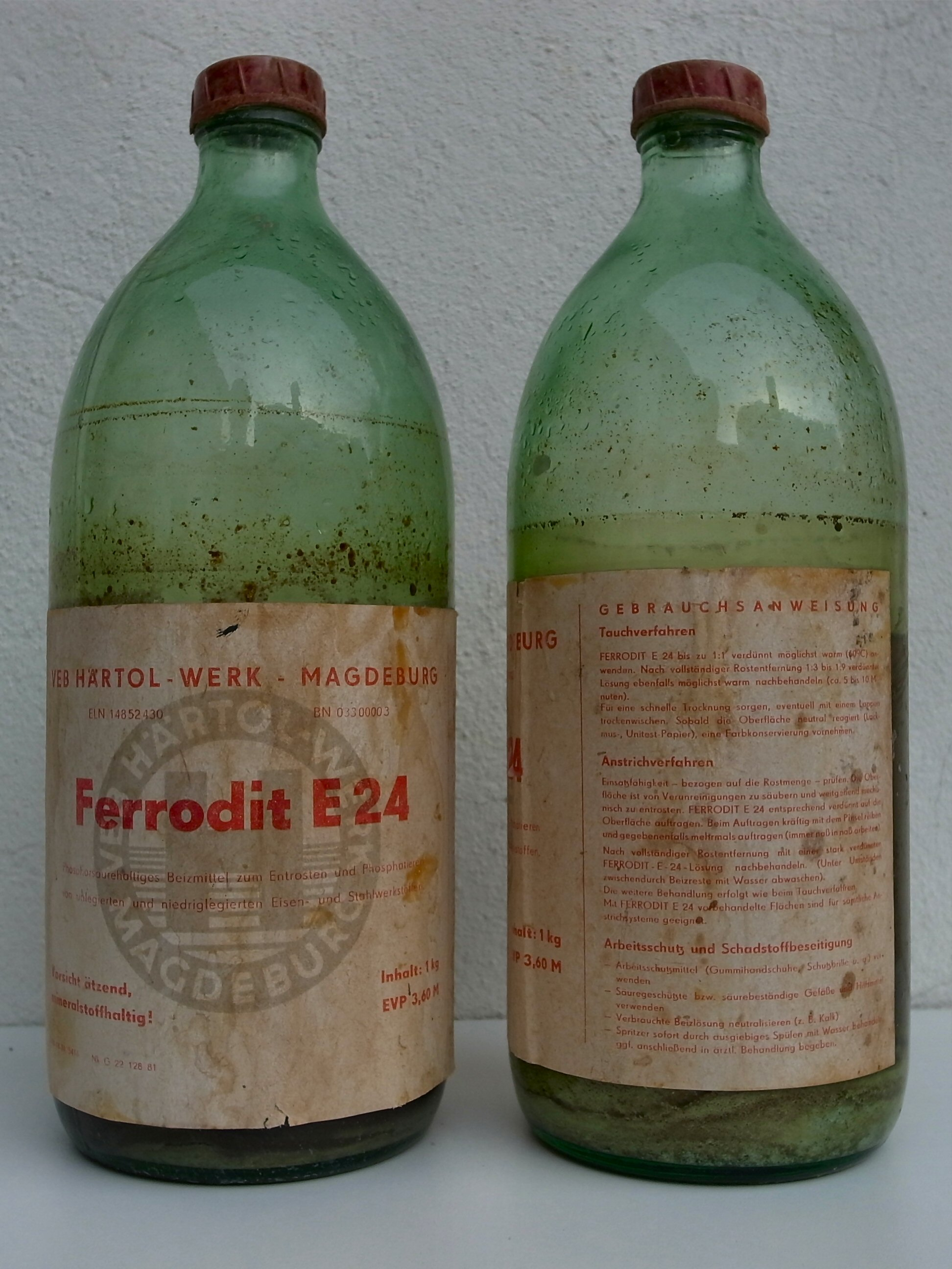 rust remover “Ferrodit E24” from East Germany